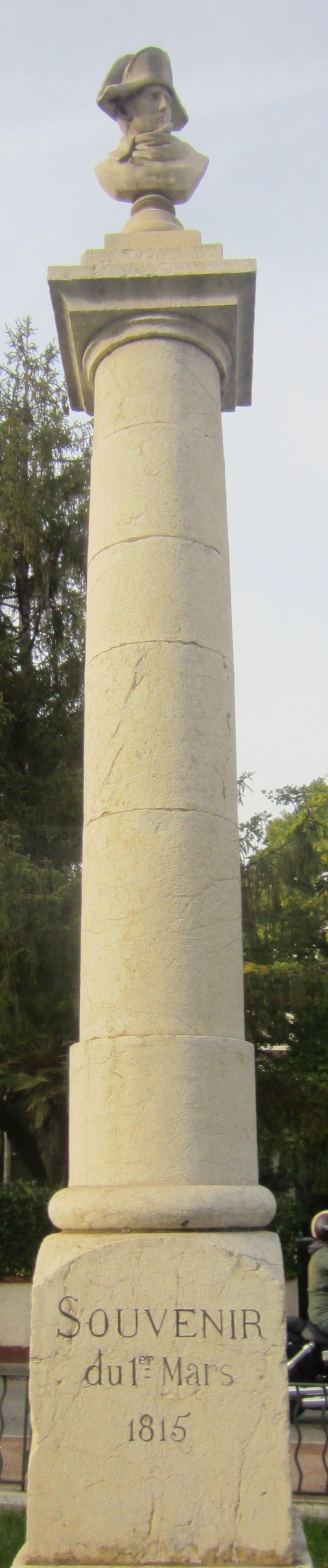 Description statue napoleon Golfe Juan Date24 December 2011Sourcemon appareil photoAuthorAimelaimePermission (Reusing this file) statue napoleon Golfe Juan